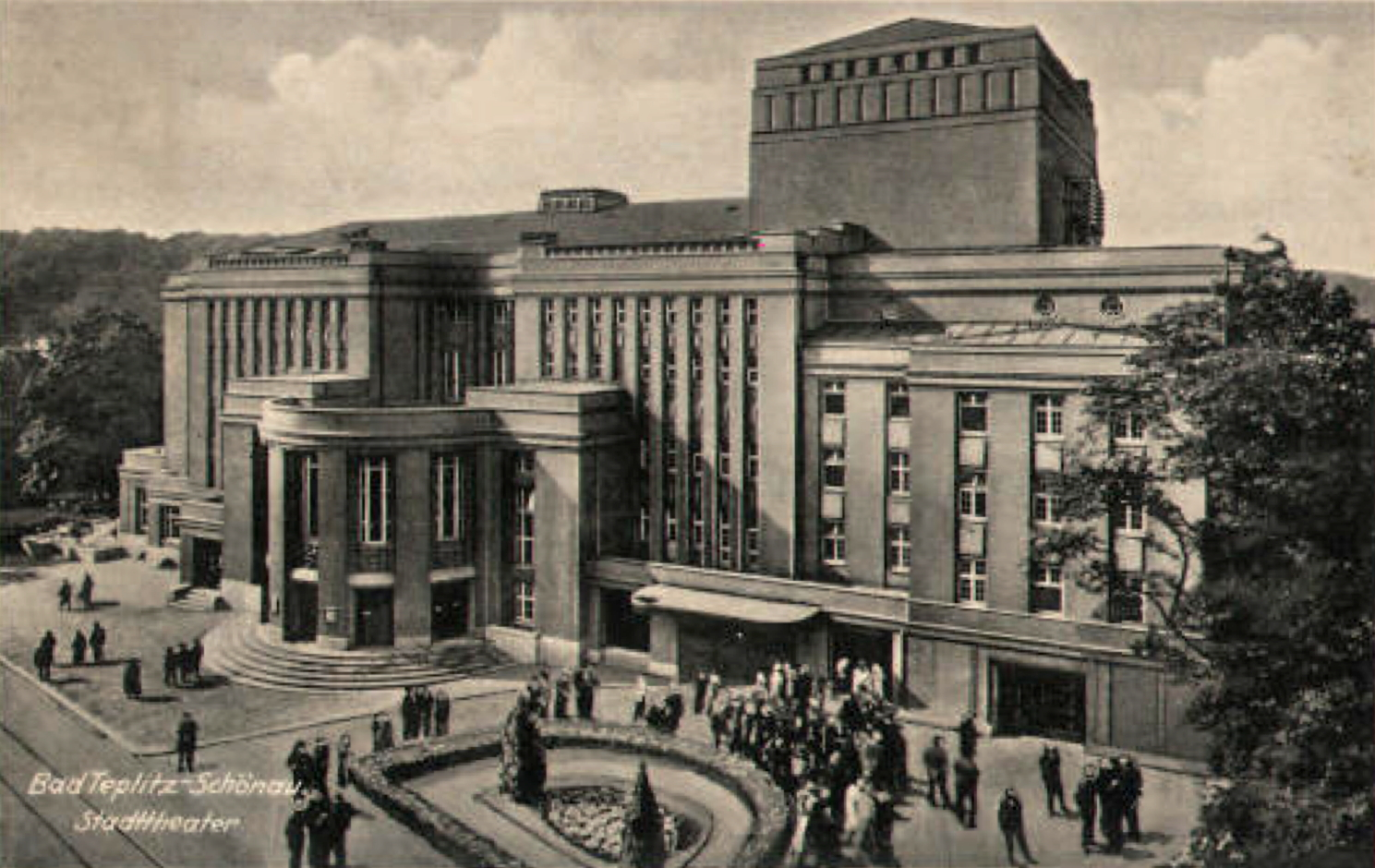 City theatre of Teplitz-Schönau, contemporary postcard picture of the 1920s or 1930s